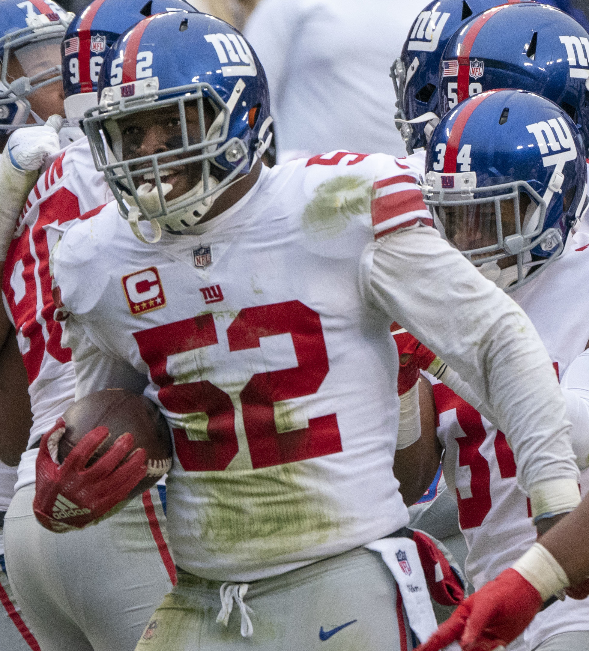 Alec Ogletree and New York Giants teammates at FedExField in December 2018.